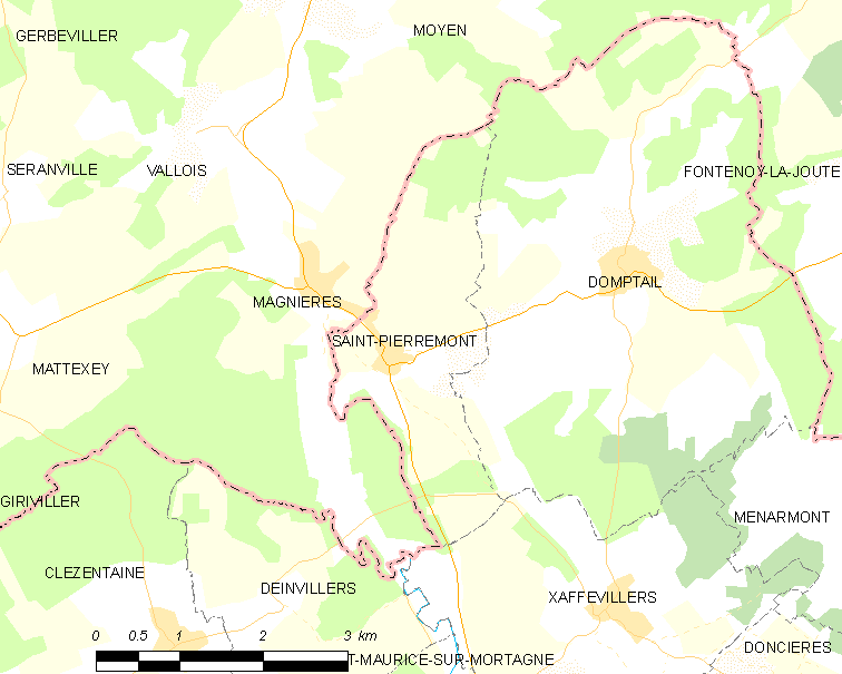 Map of French municipality Saint-Pierremont